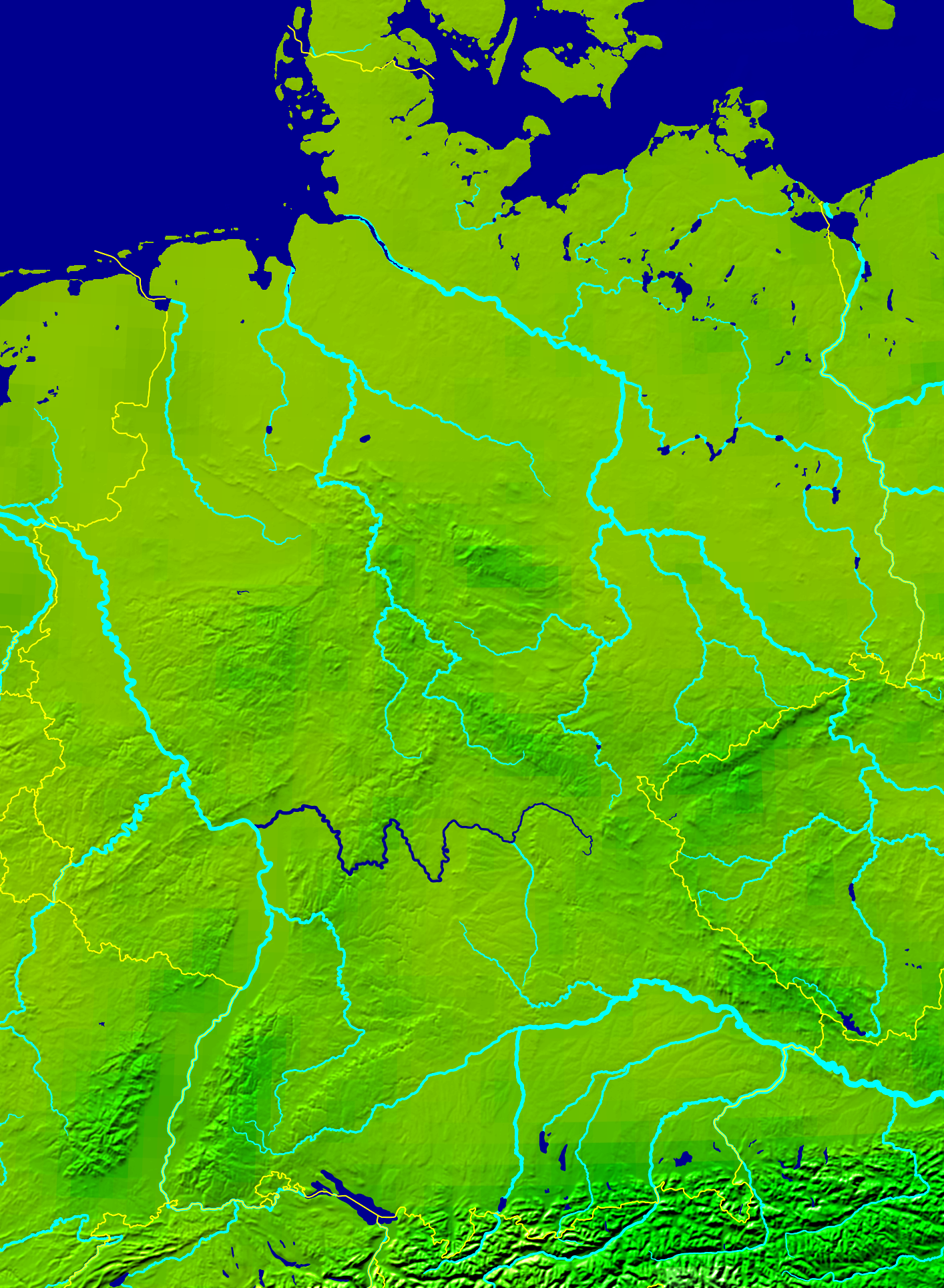 River Main in Germany